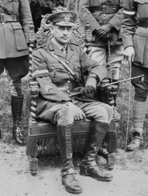 Lieutenant General John Monash seated in an ornate chair, in France 1918